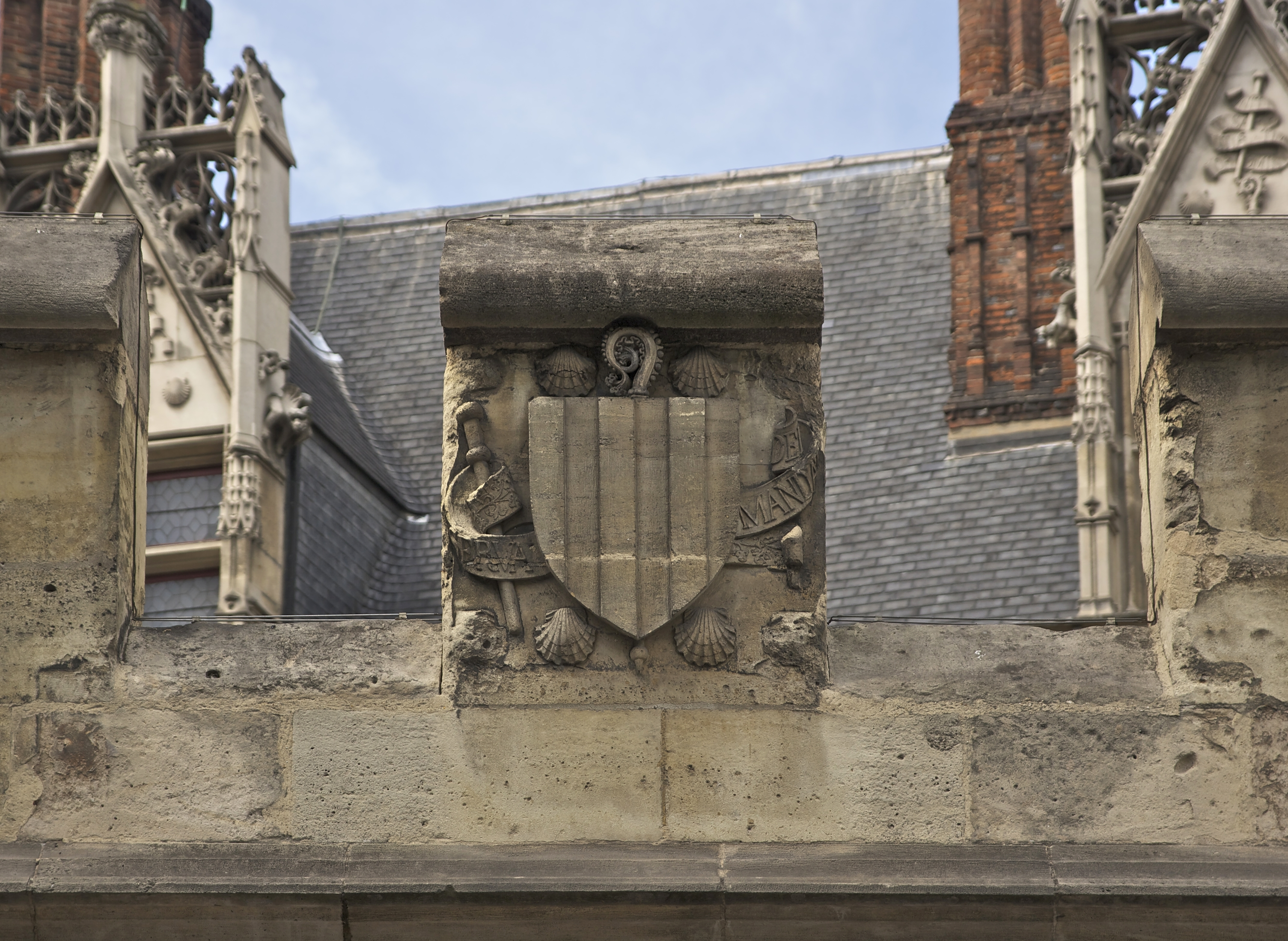 On a crenel (battlement), relief of the CoA of Jacques d'Amboise, abbot of Cluny, Hôtel de Cluny, Paris, France.